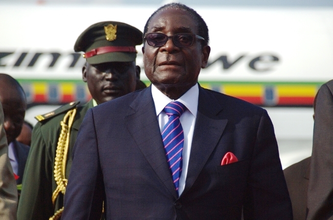 Robert Mugabe was one of the first heads of state to arrive in Juba. Most are expected to land on Saturday.